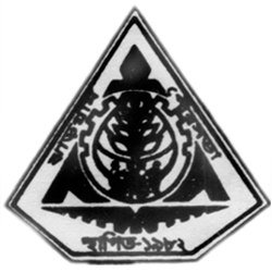 Emblem of Jhargram Municipality